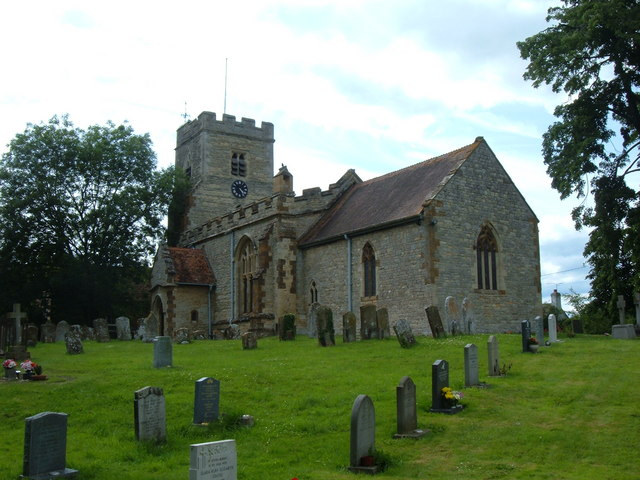 St Cecilia, Adstock